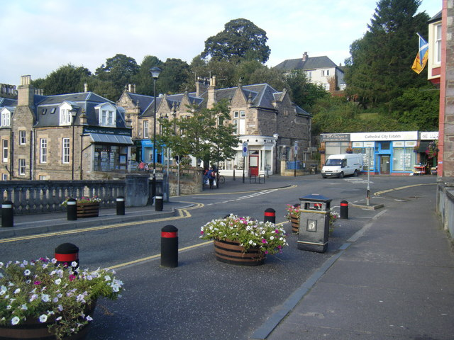 Road junction from bridge, Dunblane. Stirling Road crosses the old bridge, with Millrow coming up to meet it, and High Street joining just beyond from the left.